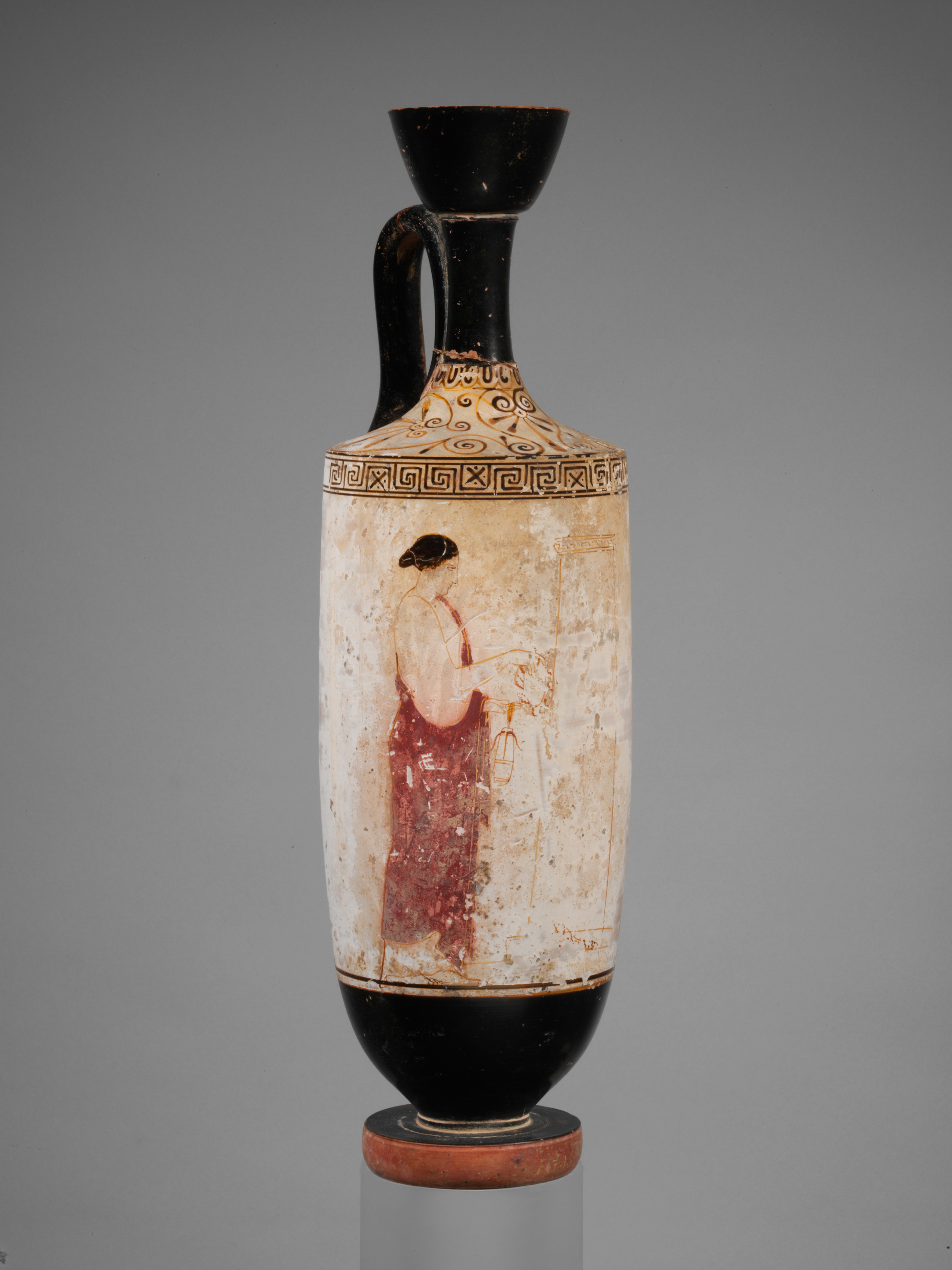 Greek, Attic; Lekythos; Vases